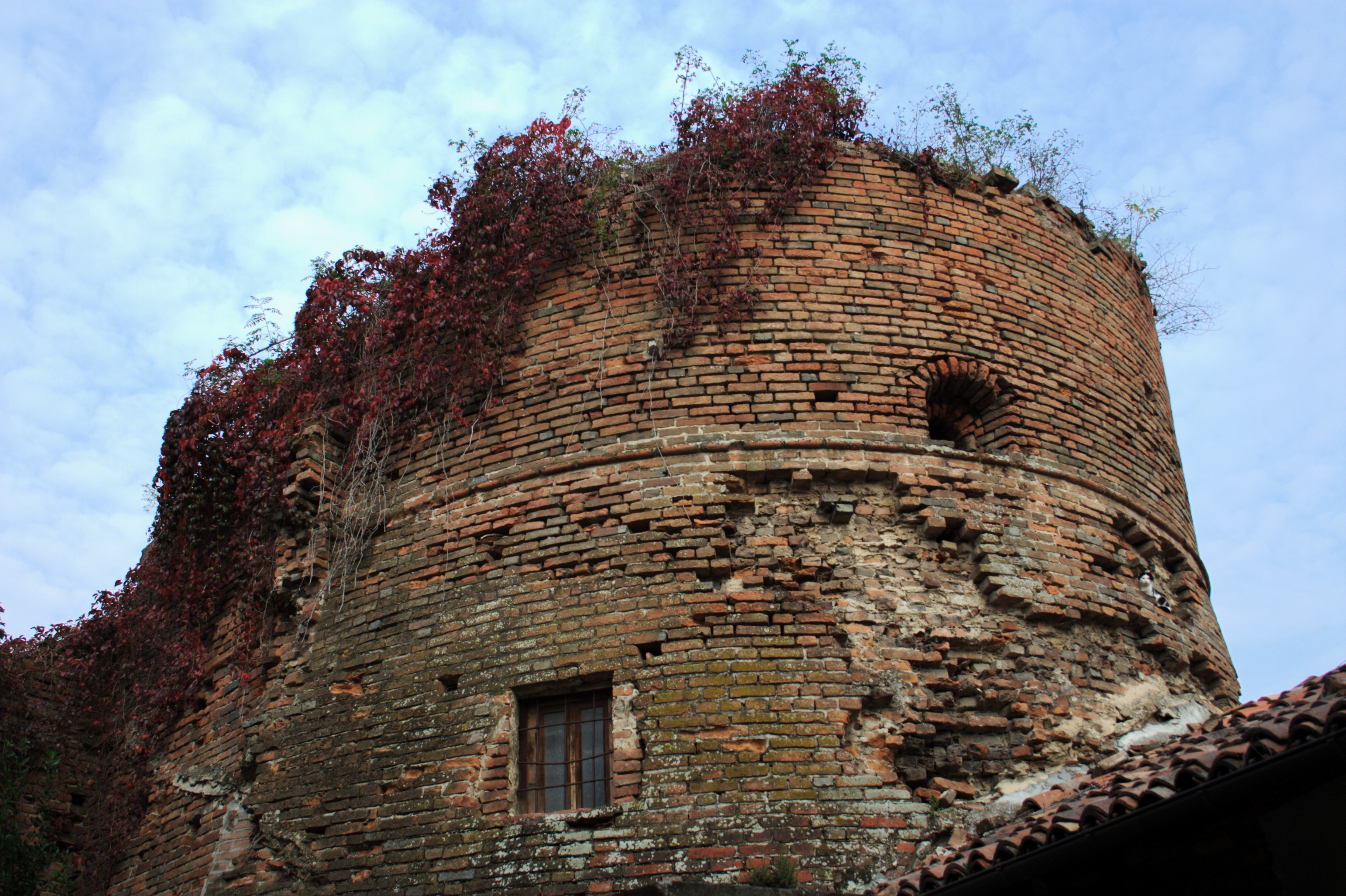 Rests of the ancient castle of the village of Bassignana